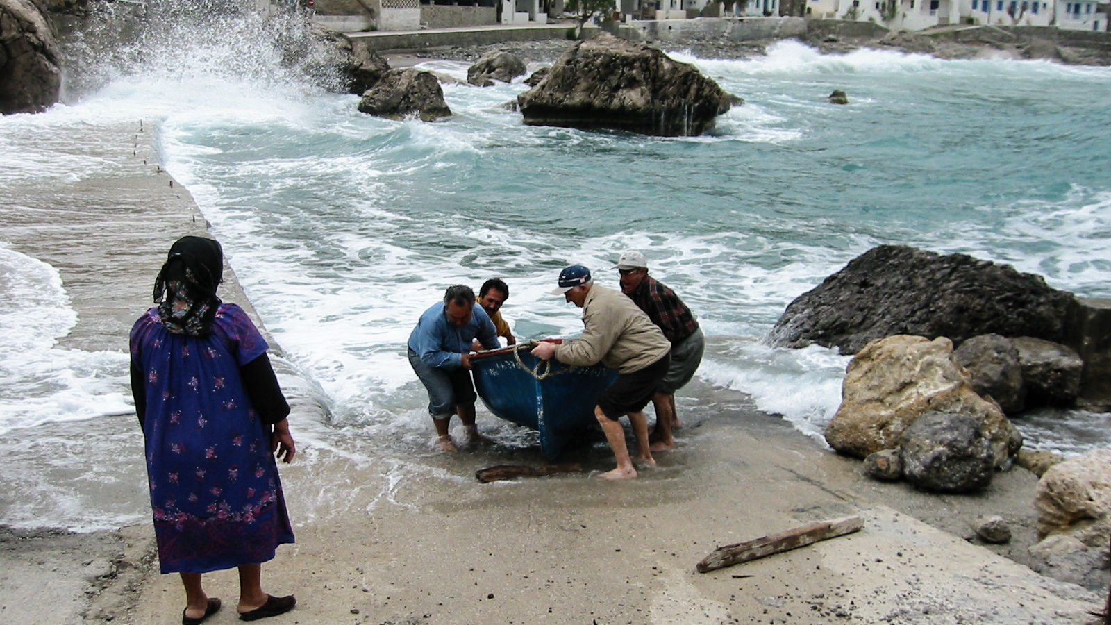 Όταν ο καιρός αναγκάζει τους ψαράδες να τραβήξουν τις βάρκες τους